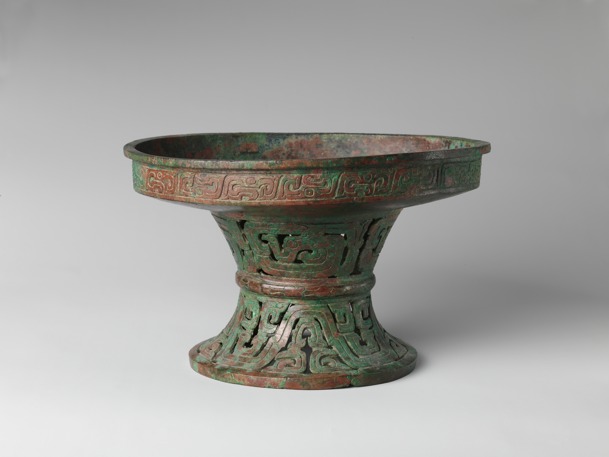 China; Grain vessel; Metalwork